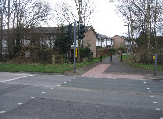 Pedestrian crossing on Worting Road